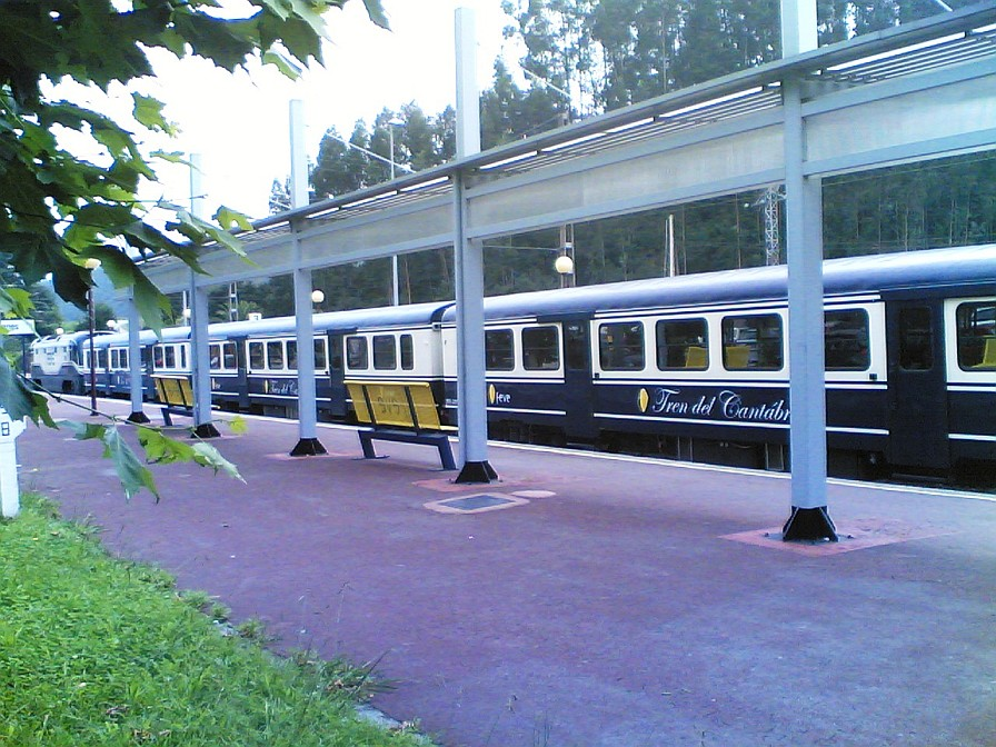 The Legend Train in the station of Liérganes in Cantabria (Spain)